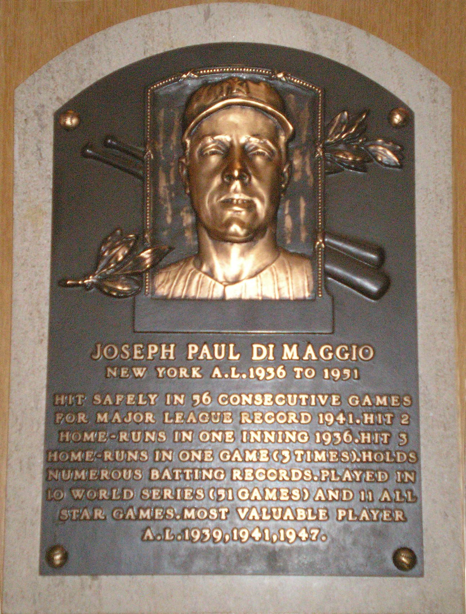 Joe DiMaggio's Baseball Hall of Fame Plaque. Taken by me. --(Review Me) R ParlateContribs@ (Let's Go Yankees!) 18:59, 22 July 2007 (UTC) 18:59, 22 July 2007 . . R . . 1,622×2,162 (1,022 KB)